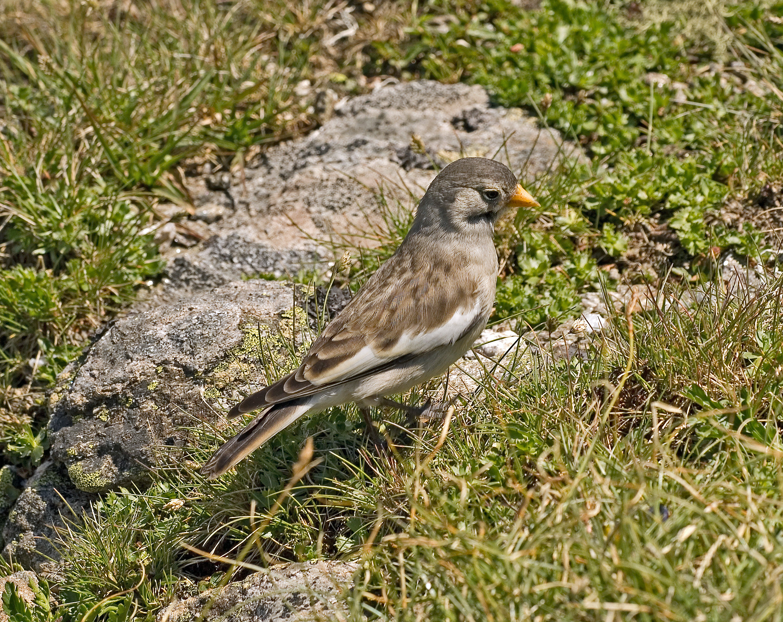 Please report references to kulacgmx.at.